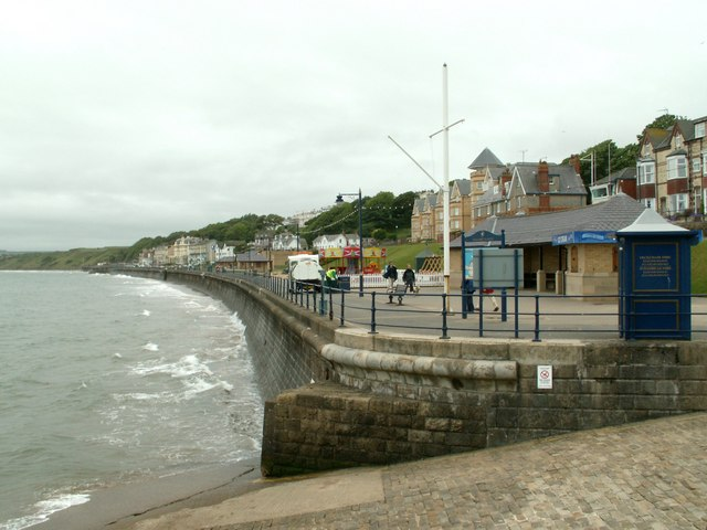 Filey Sea Wall.